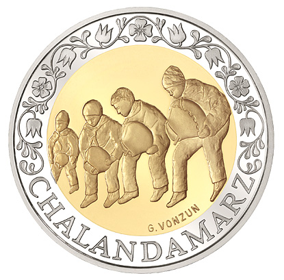 Swiss Commemorative Coin 2003 CHF 5 obverse